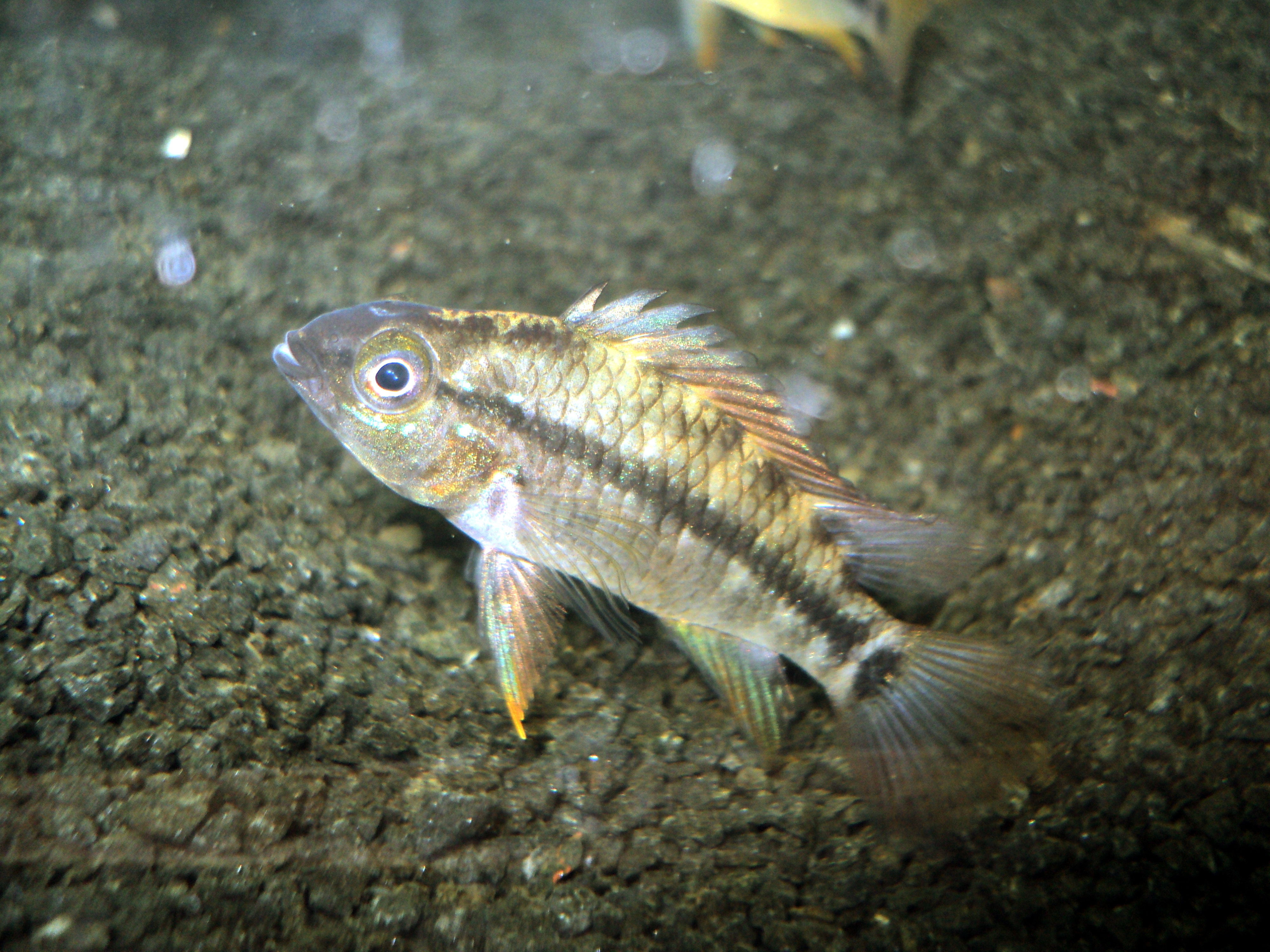 Apistogramma cruzi (female)